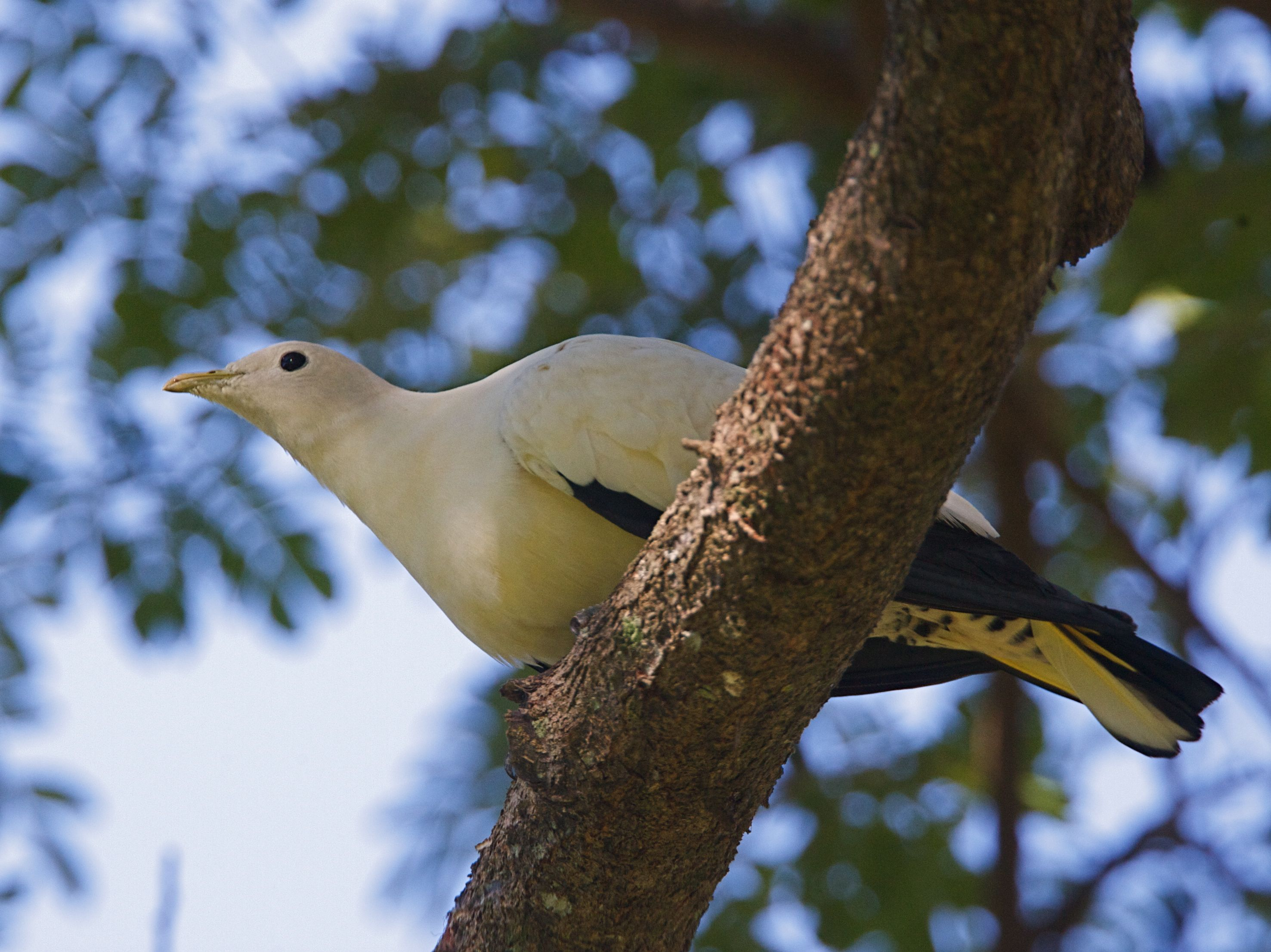 Torresian Imperial-Pigeon ( Ducula spilorrhoa) Botanical Gardens, Darwin, Northern Territory, Australia 11th. August 2010 690V0399